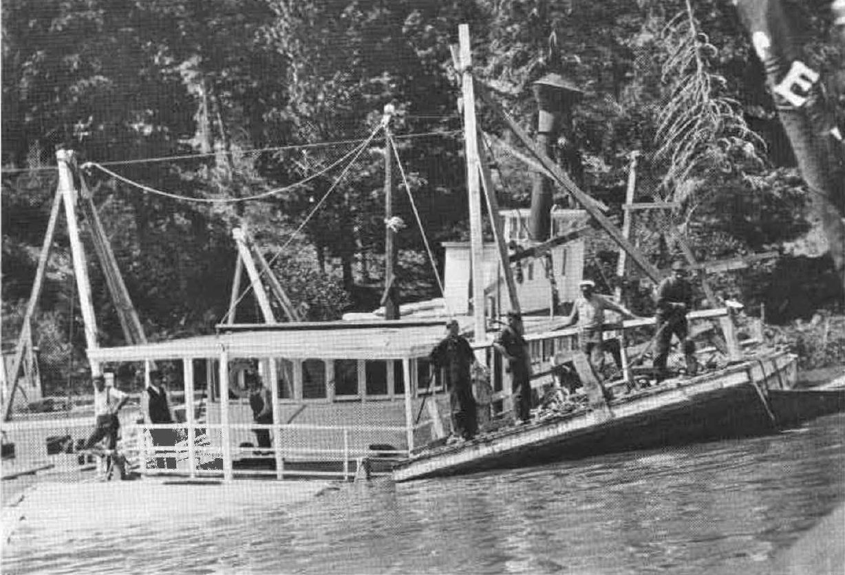 Salvage work being done on the steamer Winema, in upper Klamath Lake, following sinking of steamer in August 1907.